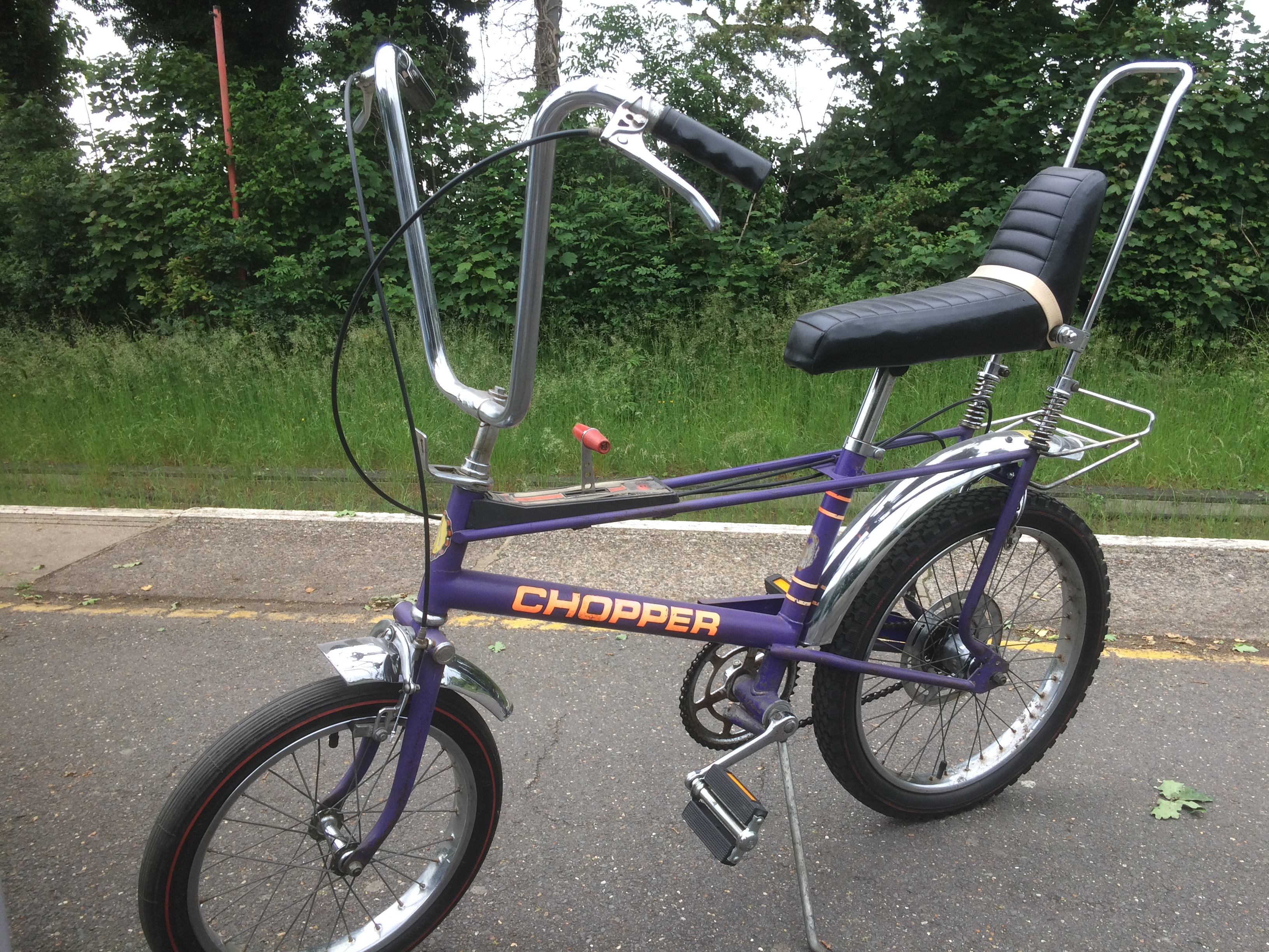 1972 Beeza